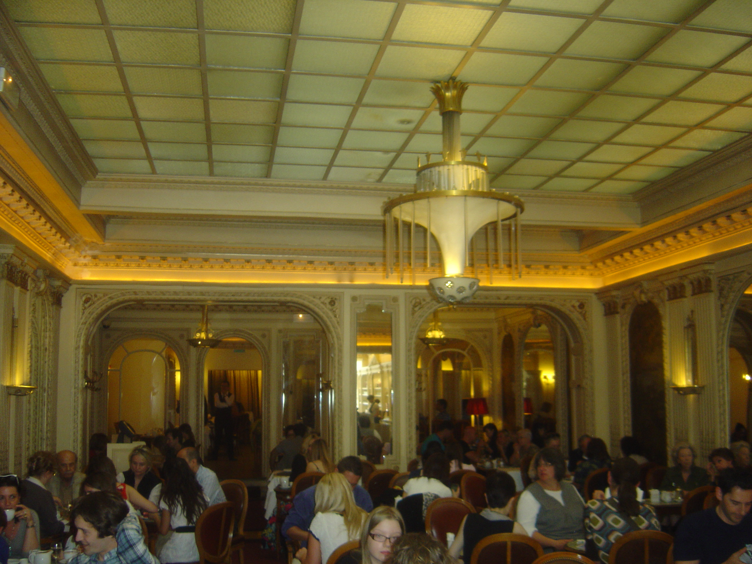 Cafe Angelina, Paris